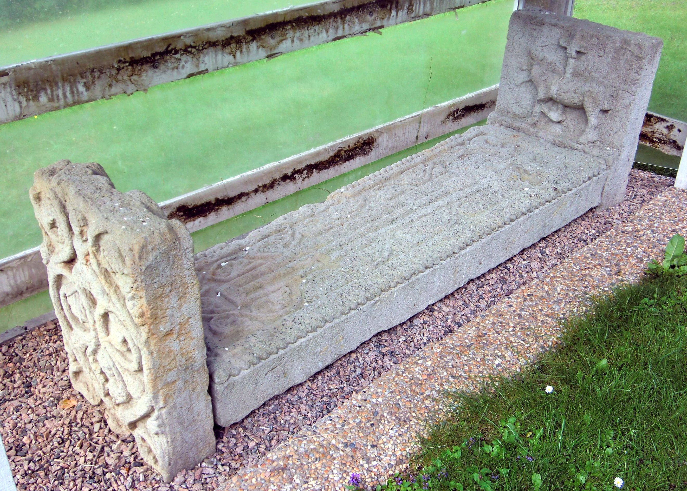 Romanesque gravemonument from Hällstad parish church, Västergötland, Sweden.